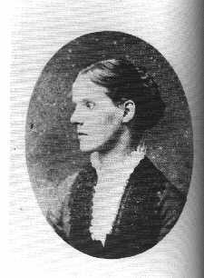 en:Hannah and Florence Barlow]|Florence Barlow , artist.